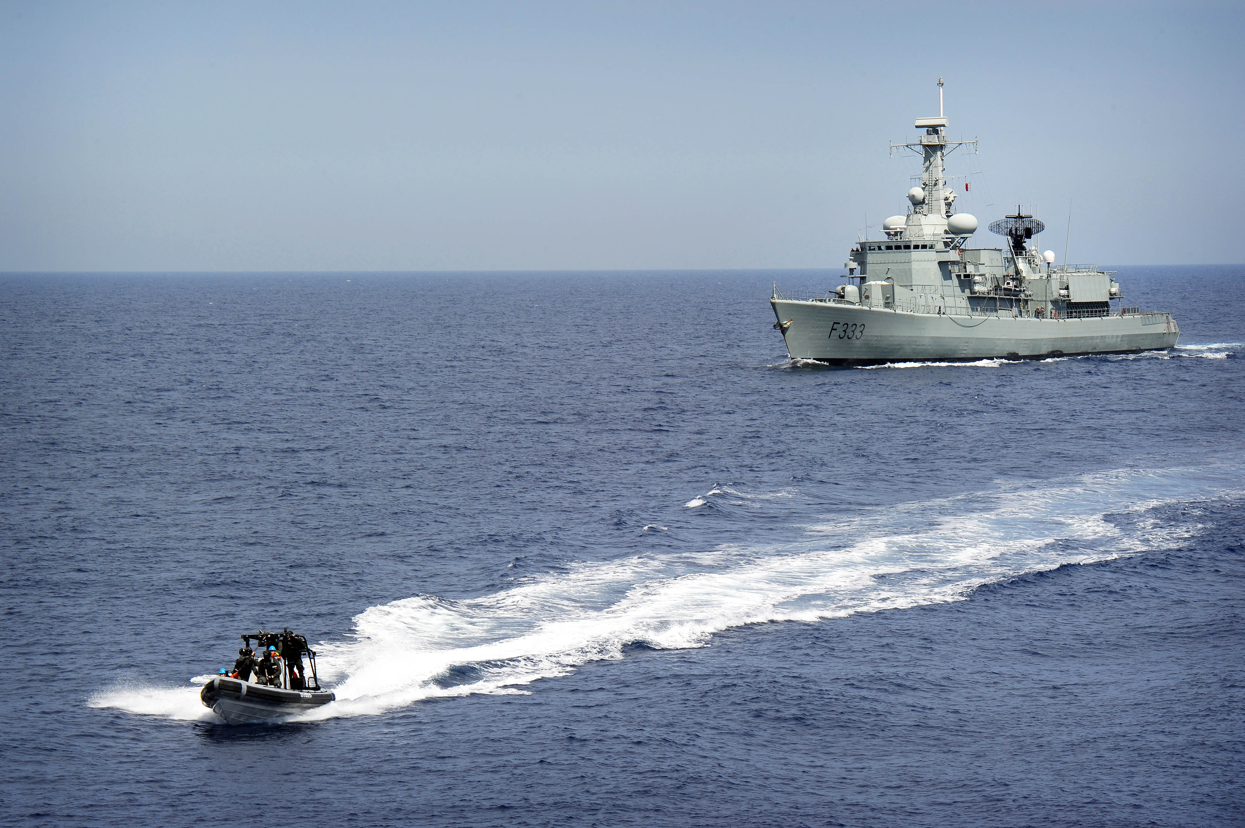 A Portuguese navy visit, board, search and seizure team in a rigid-hull inflatable boat leaves the Portuguese navy frigate NRP Bartolomeu Dias to conduct an inspection of the Military Sealift Command container and roll-on/roll-off ship USNS LCPL Roy M. Wheat during exercise Phoenix Express 2010. Phoenix Express is a two-week exercise designed to strengthen maritime partnership and enhance stability in the region through increased interoperability and cooperation among partners from Africa, Europe and the U.S.